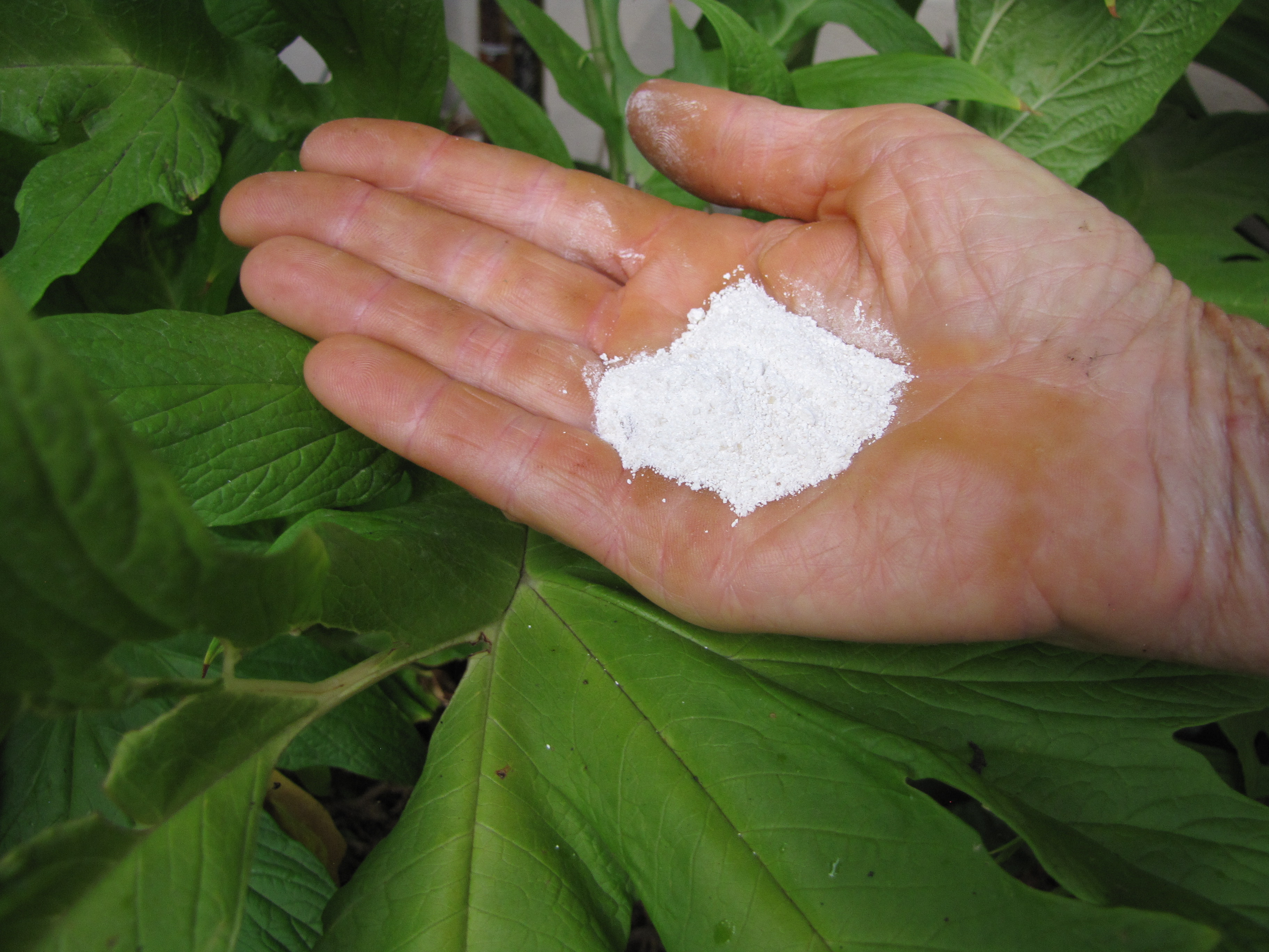 Tacca leontopetaloides (Pia, Polynesian arrowroot) Ground into powder for thickening with plant at Pali o Waipio, Maui, Hawaii. November 08, 2012 #121108-0896 Image Use Policy Also placed in Taccaceae.